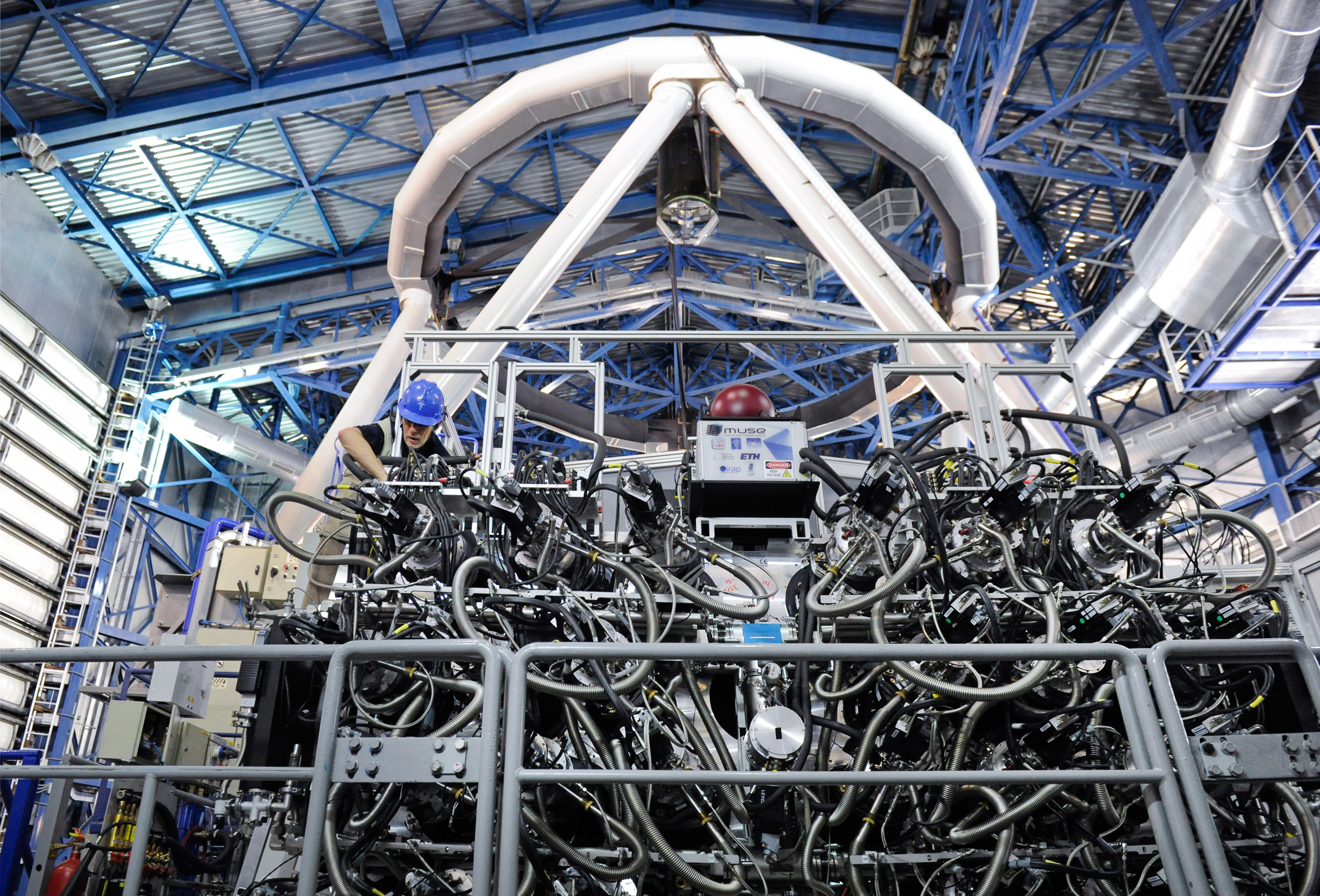 The MUSE instrument is one of the most recent additions to the instrument complement of the VLT. It has 24 detectors, each of which needs its own continuous flow cooling systems. Such innovative systems were first developed at ESO for the cooling of instruments and detectors for the Very Large Telescope (VLT). The technology has been used intensively during the last decade and has now been licensed through a technology transfer agreement.